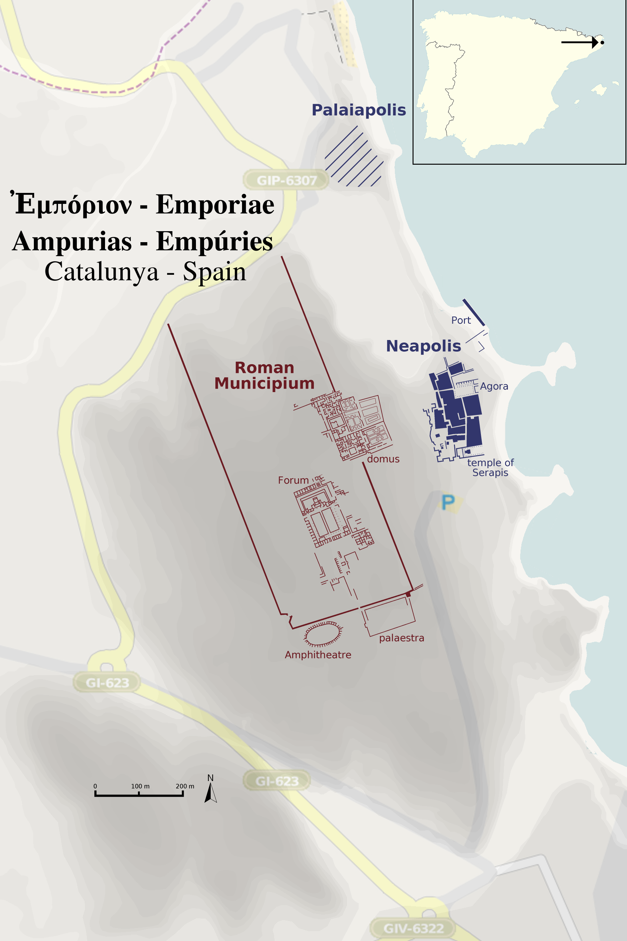 Plan of the ancient city Empúries.